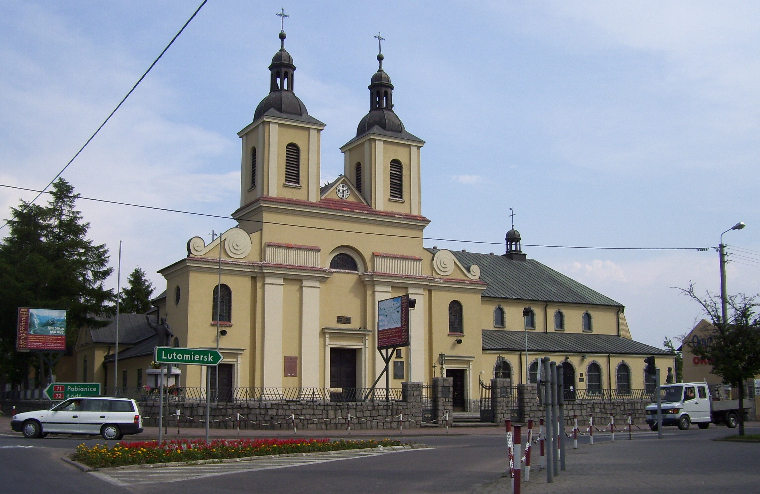 Aleksandrów Łódzki, Roman Catholic Church of Holy Archangels Rafael and Michael.